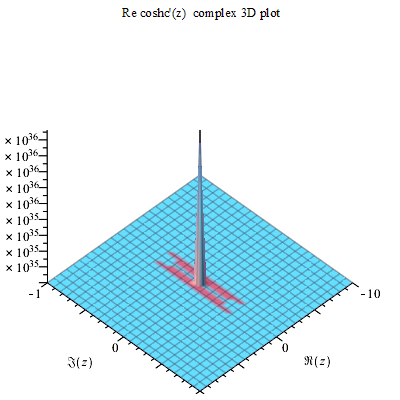 Coshc'(z) Re complex 3D plot